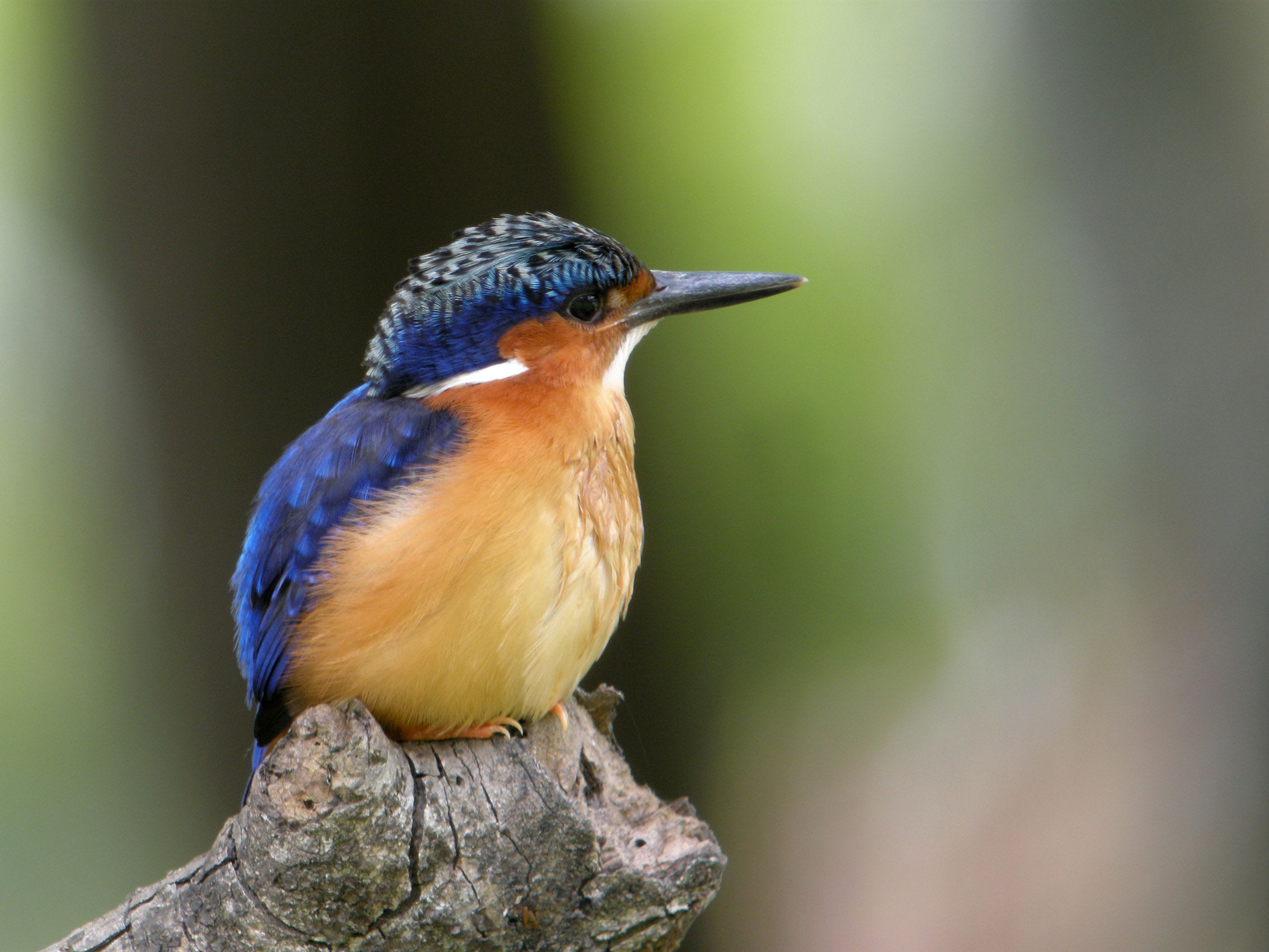 Malagasy Kingfisher, Antananarivo, Madagascar. This collaborative Malagasy Kingfisher was digiscoped next to the large ponds in Tsimbazaza, the zoo of the capital of Madagascar, Antananarivo.